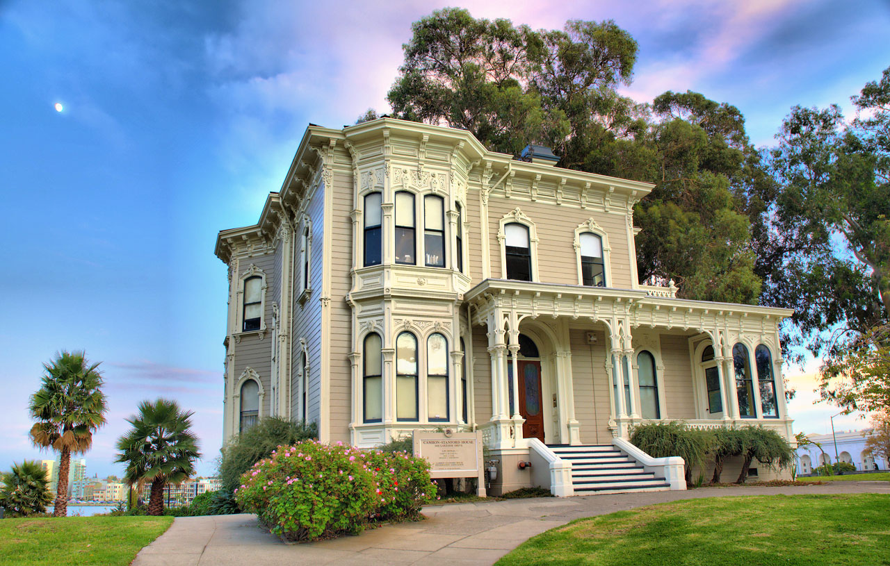 Cameron-Stanford House, Oakland, CA